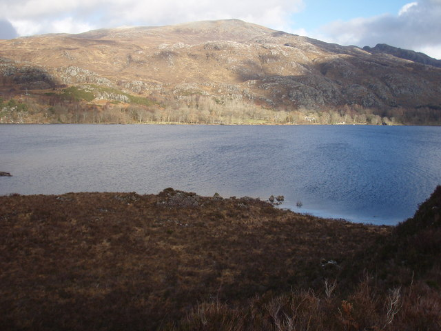 Across Loch Maree to Letterewe The easy slopes of Beinn Lair make the other side rather a surprise.